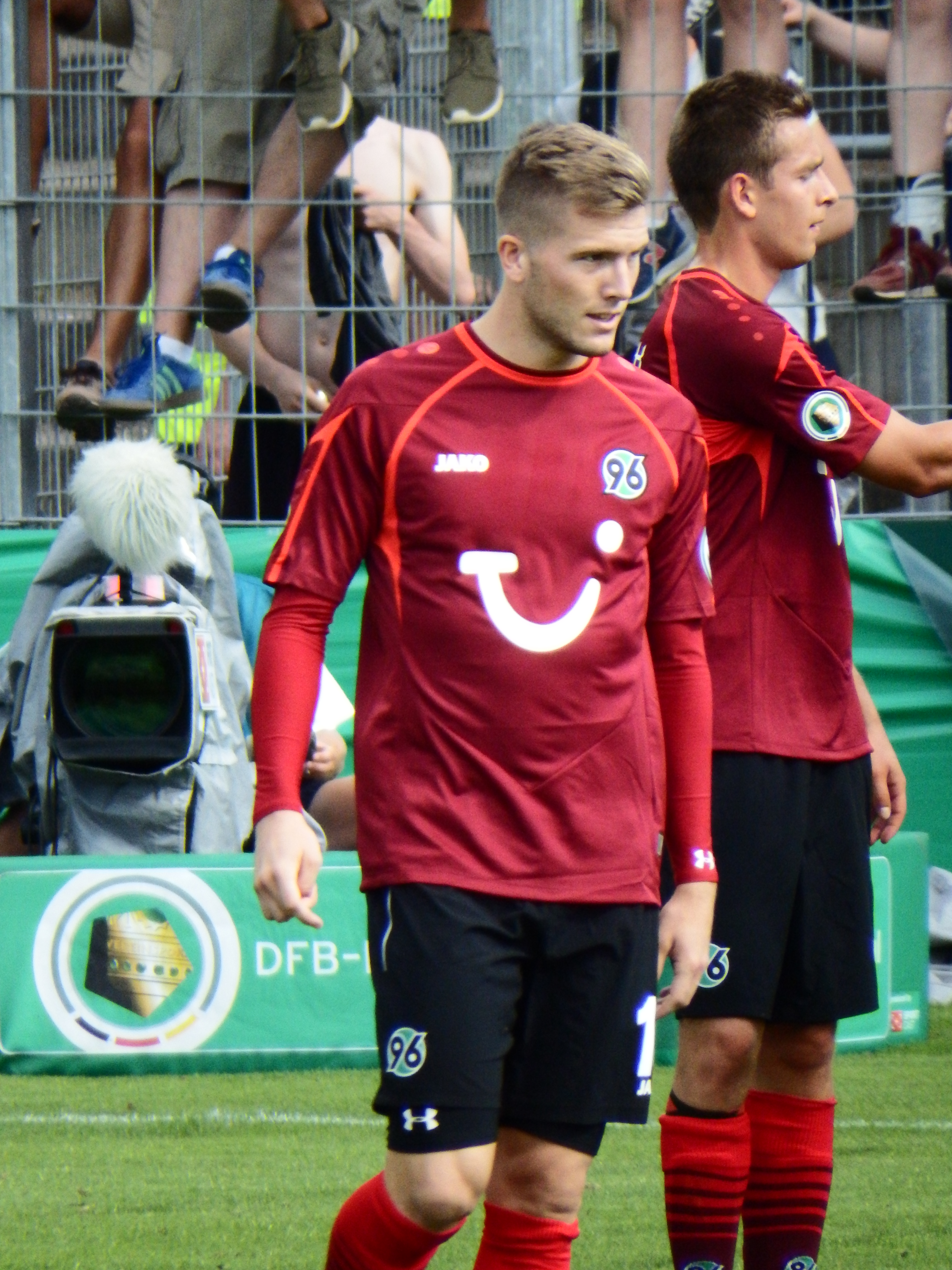 André Hoffmann as Player of Hannover 96